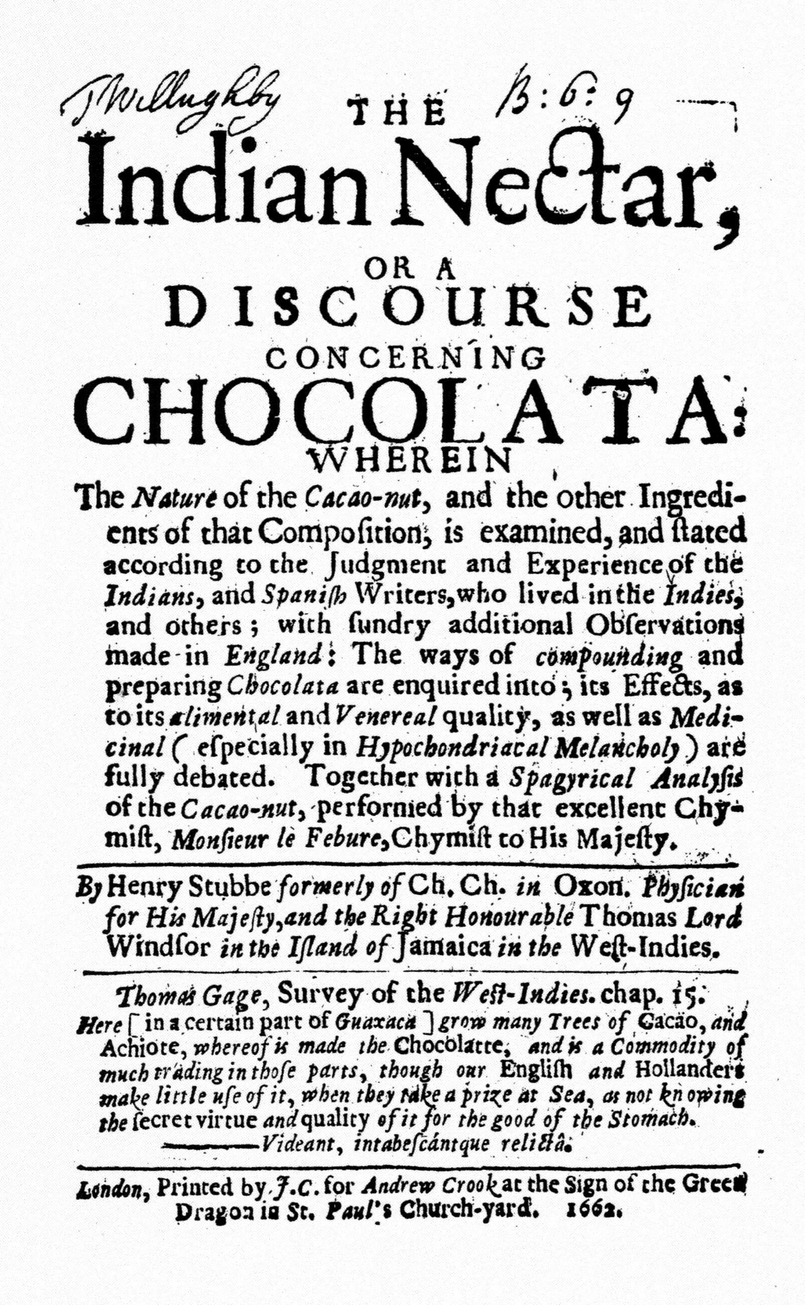 Title page of "The Indian nectar", Henry Stubbe, 1662